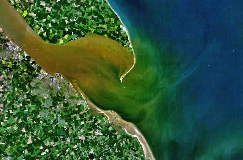 Author: Harkey Lodger Photographer: Base image by NASA Copyright holder:Harkey Lodger Location: Humber Estuary, Yorkshire UK Co-ordinates: Time: N/A Date: Friday 30 March, 2007 Camera/scanner: See Meta Data Modifications:Colour enhanced Rationale: To illustrate Wikipedia article on Holderness. The silt in the estuary is clearly visible. Notes: License:The author grants the use of the image under the GDFL and/or Creative Commons licenses.